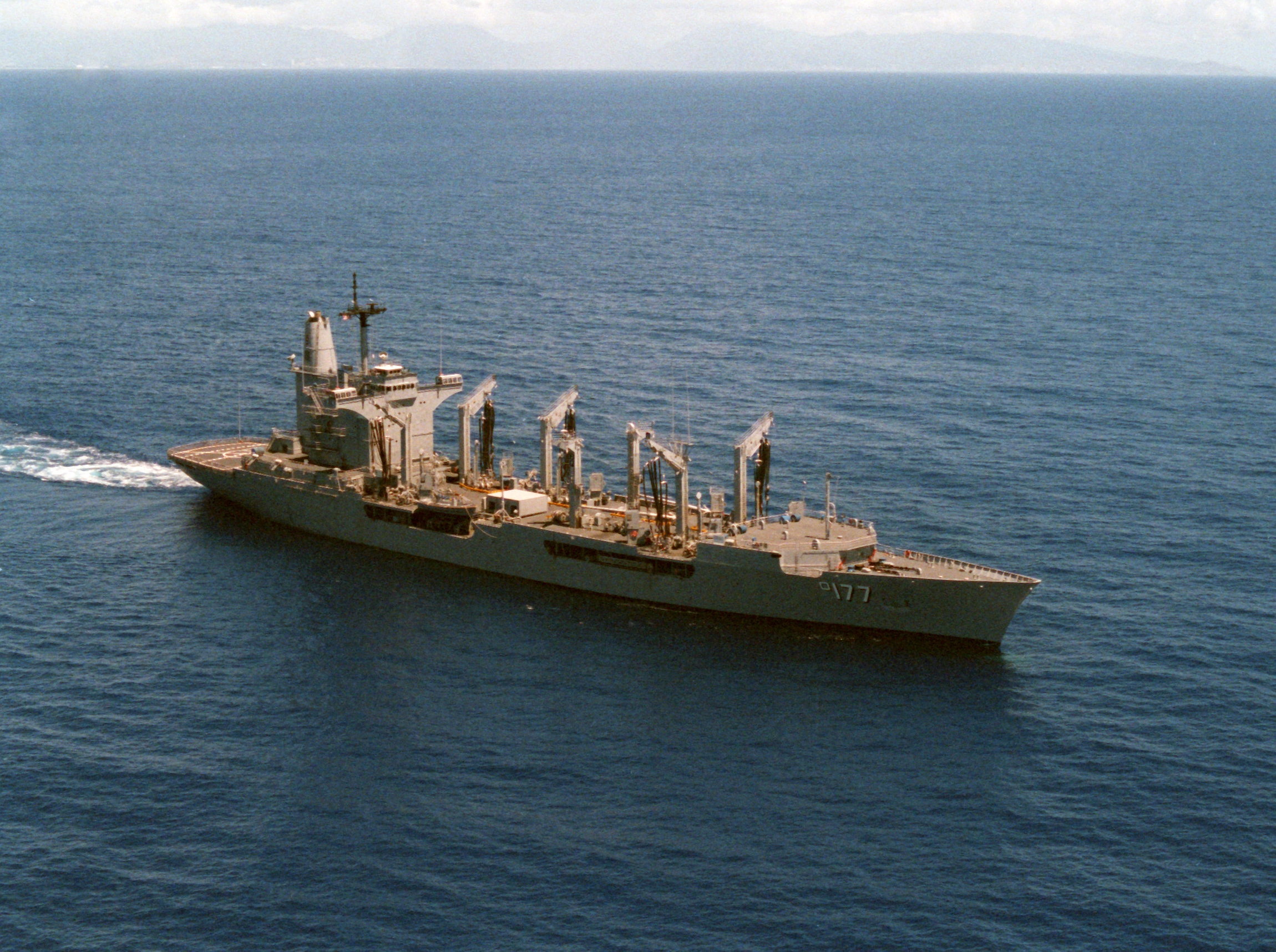 The U.S. Navy the fleet oiler USS Cimarron (AO-177) underway on 24 May 1985.